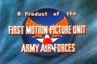 Screen shot of the credit screen from Camouflage